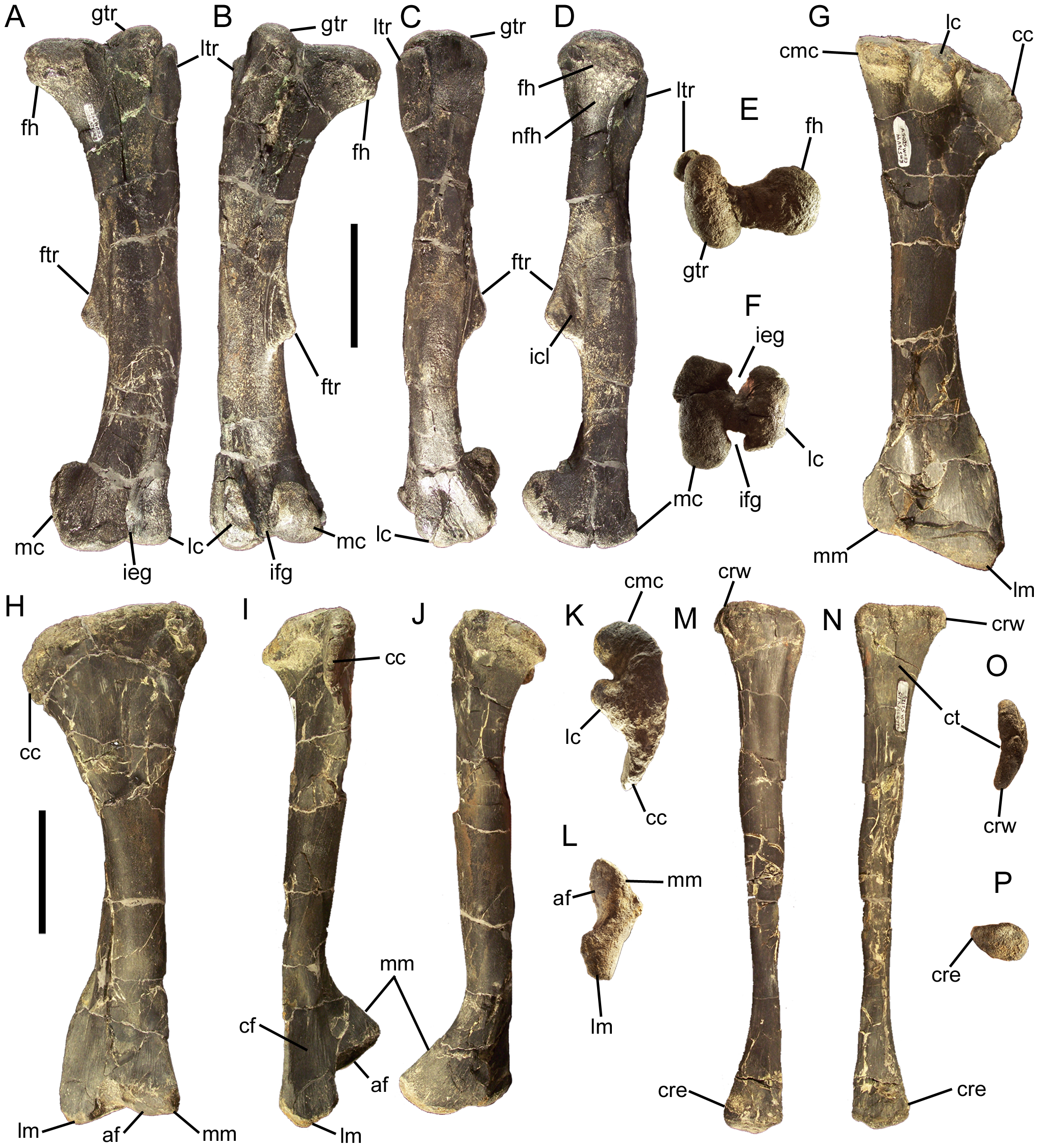 Hindlimb elements of Eolambia. Left femur CEUM 34252 (Eo2) in (A) cranial, (B) caudal, (C) lateral, (D) medial, (E) proximal, and (F) distal views. Right tibia CEUM 52054 (WS8) in (G) lateral, (H) medial, (I) cranial, (J) caudal, (K) proximal, and (L) distal views. Left fibula CEUM 52126 (WS8) in (M) lateral and (N) medial views. Left fibula CEUM 35464 (Eo2) in (O) proximal and (P) distal views. Abbreviations: af, facet for articulation of astragalus; cc, cnemial crest; cf, concavity for articulation of distal end of fibula; cmc, caudomedial condyle; cre, cranial expansion of distal end of fibula; crw, cranial wing on proximal end of fibula; ct, concave surface for articulation with lateral and caudomedial condyles of tibia; fh, femoral head; ftr, fourth trochanter; gtr, greater trochanter; icl, insertion pit of M. caudifemoralis longus; ieg, intercondylar extensor groove; ifg, intercondylar flexor groove; lc, lateral condyle; lm, lateral malleolus; ltr, lesser trochanter; mc, medial condyle; mm, medial malleolus; nfh, neck of femoral head. Scale bars equal 10 cm.